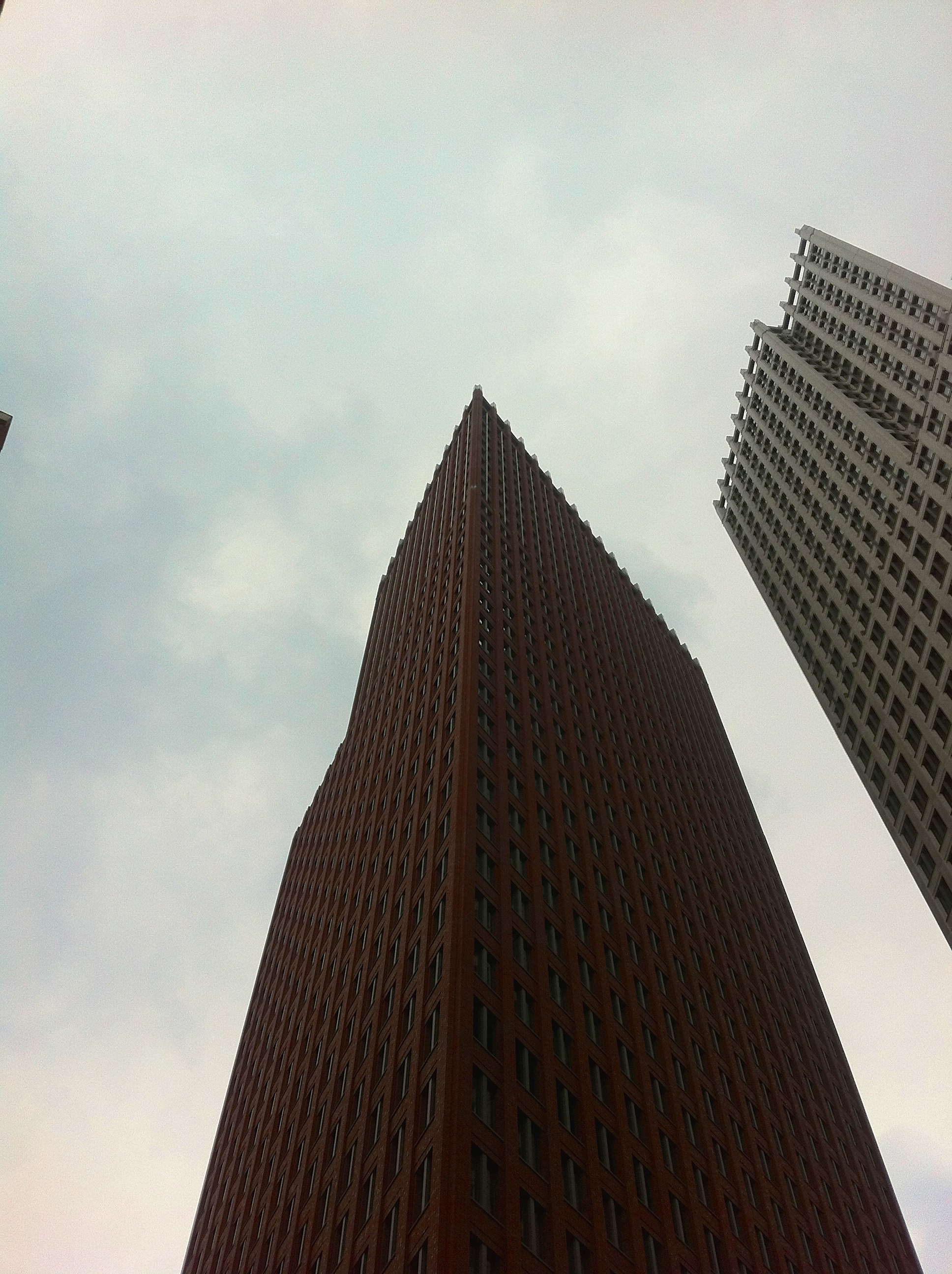 Ministry of the Interior and Kingdom Relations, and the Ministry of Security and Justice building in The Hague